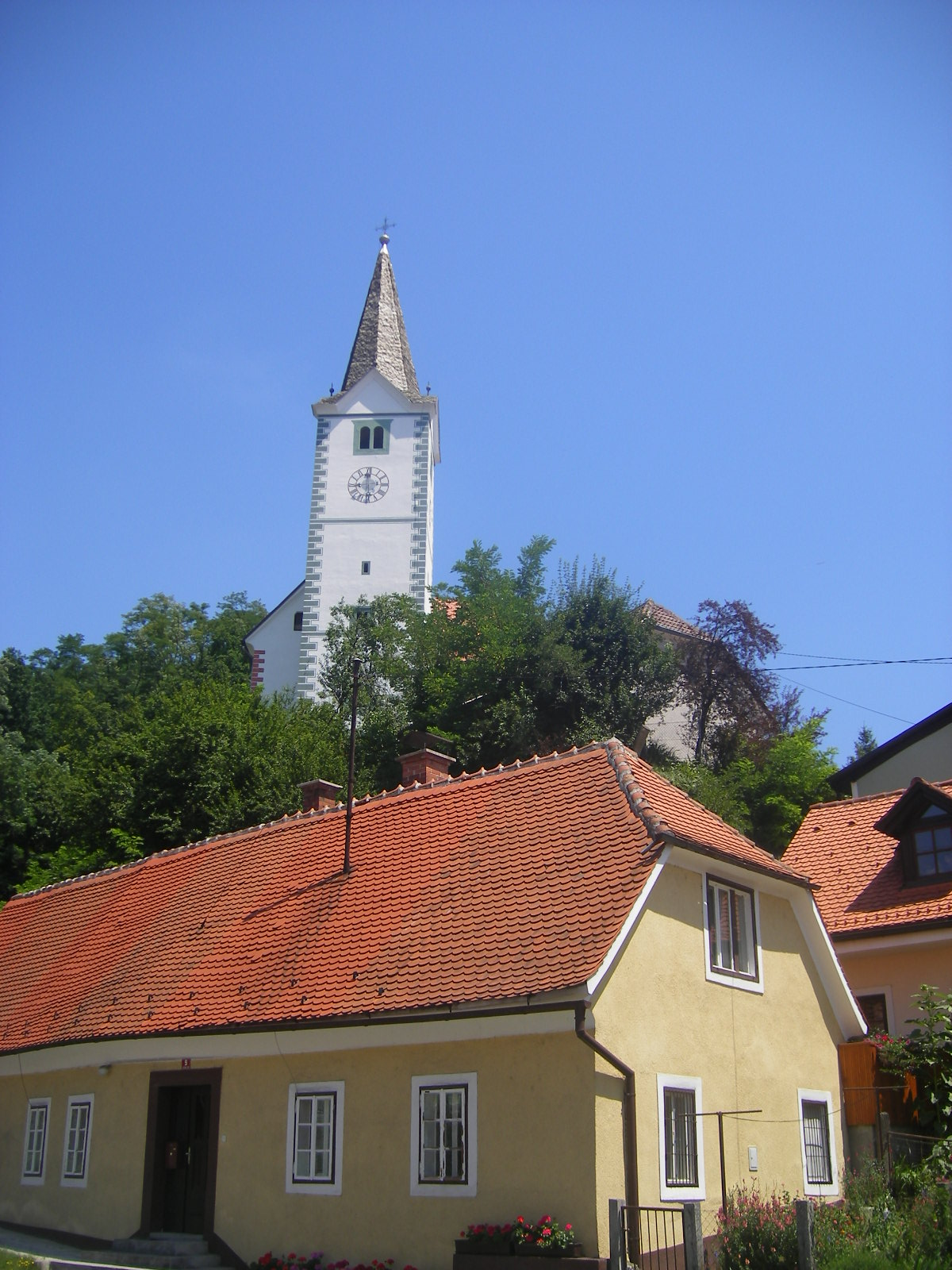 St. Florian's Church, Vojnik